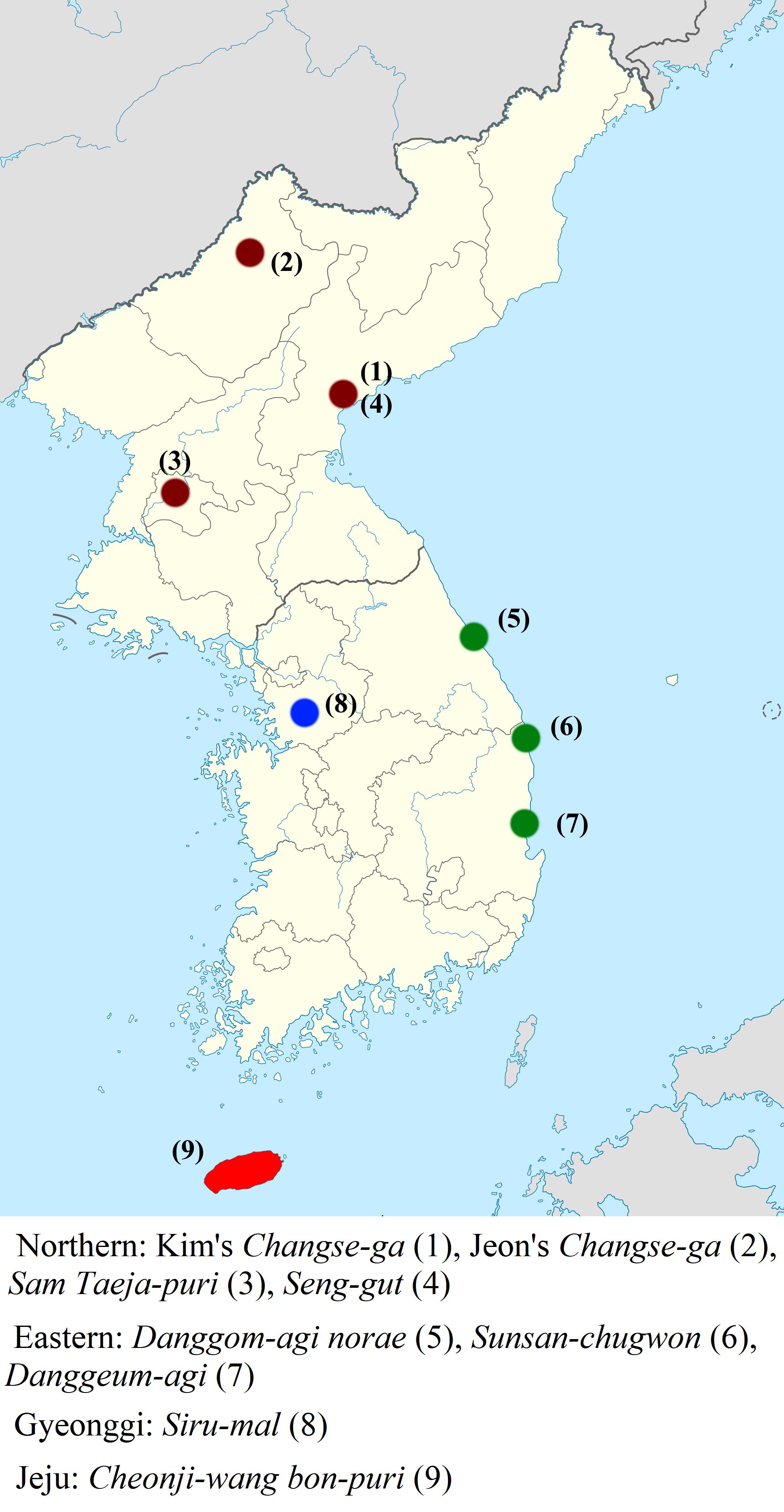 Map of all known Korean creation narratives per Han'guk-ui Changse Sinhwa, Kim Heonsun 1994. Unfortunately, no new mainland narrative was discovered since 1994. Jeju is all red because the tradition is still alive there. Source file for base image on Commons.